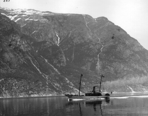 DS Ulvik, earlier the british yacht Santa Rita , in Hardanger Fjord. 1924.